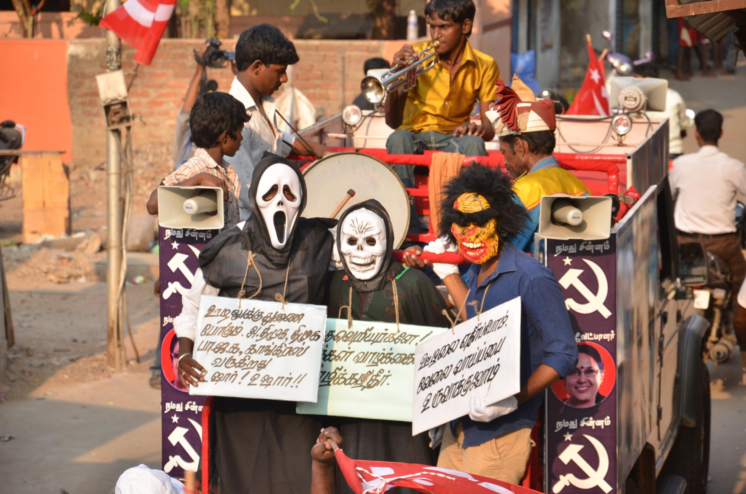 CPI(M) North Chennai Election Campaign